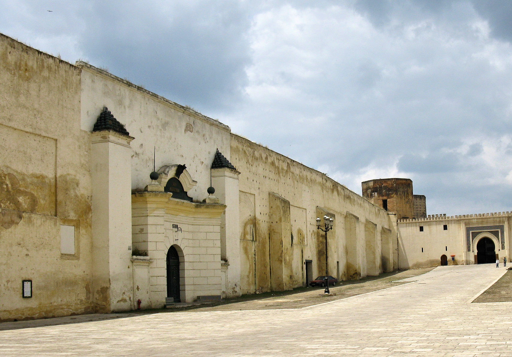 Bab Makina, the entrance to the Dar al-Makina, a 19th-century arms factory, on the west side of the New Mechouar in Fes.